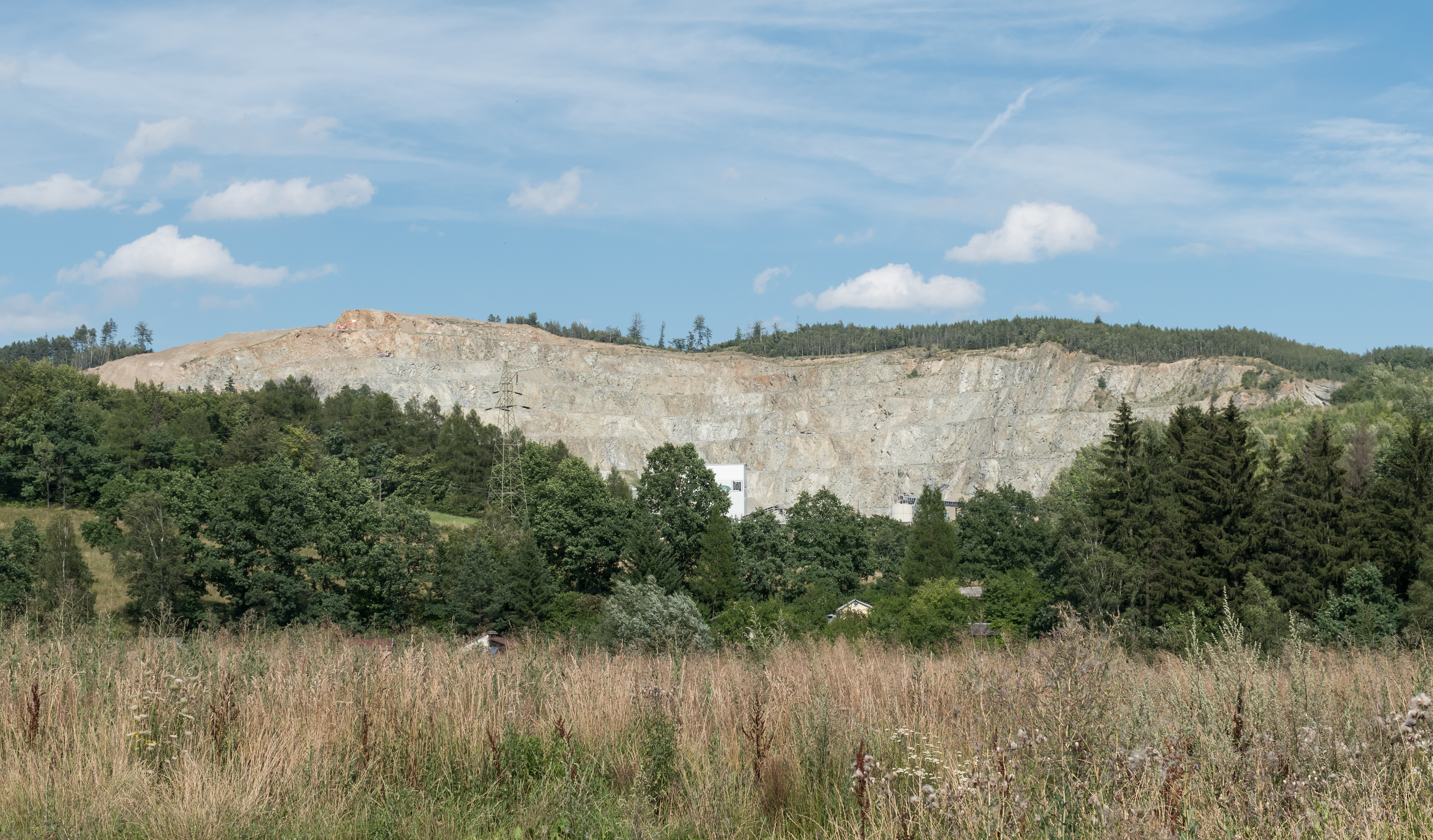 Quarry of gabbro on hillside of Przykrzec